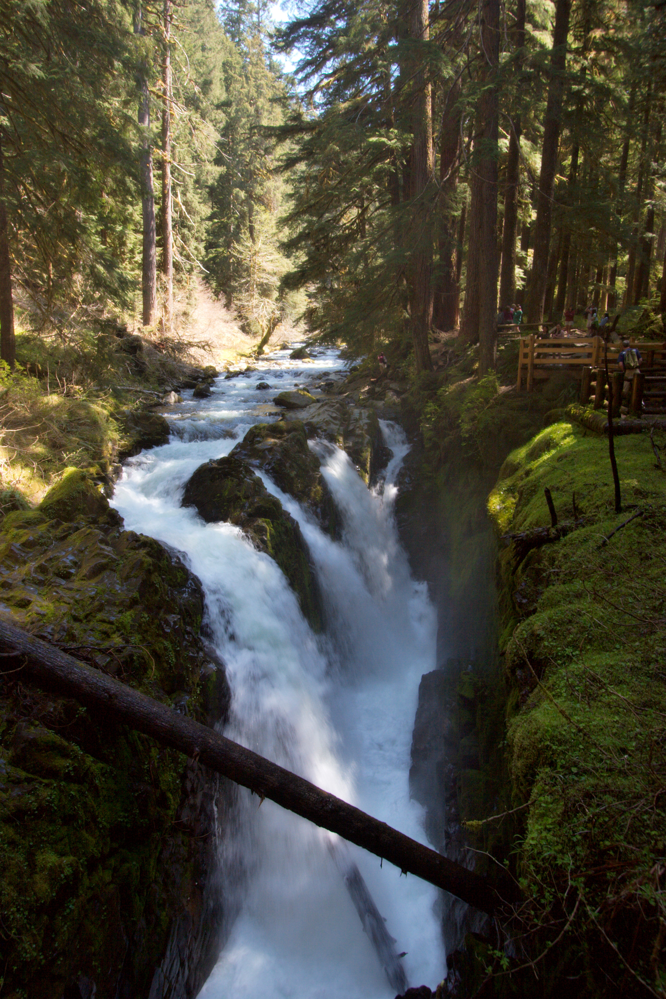 Sol Duc Falls, a waterfall in Olympic National Park.